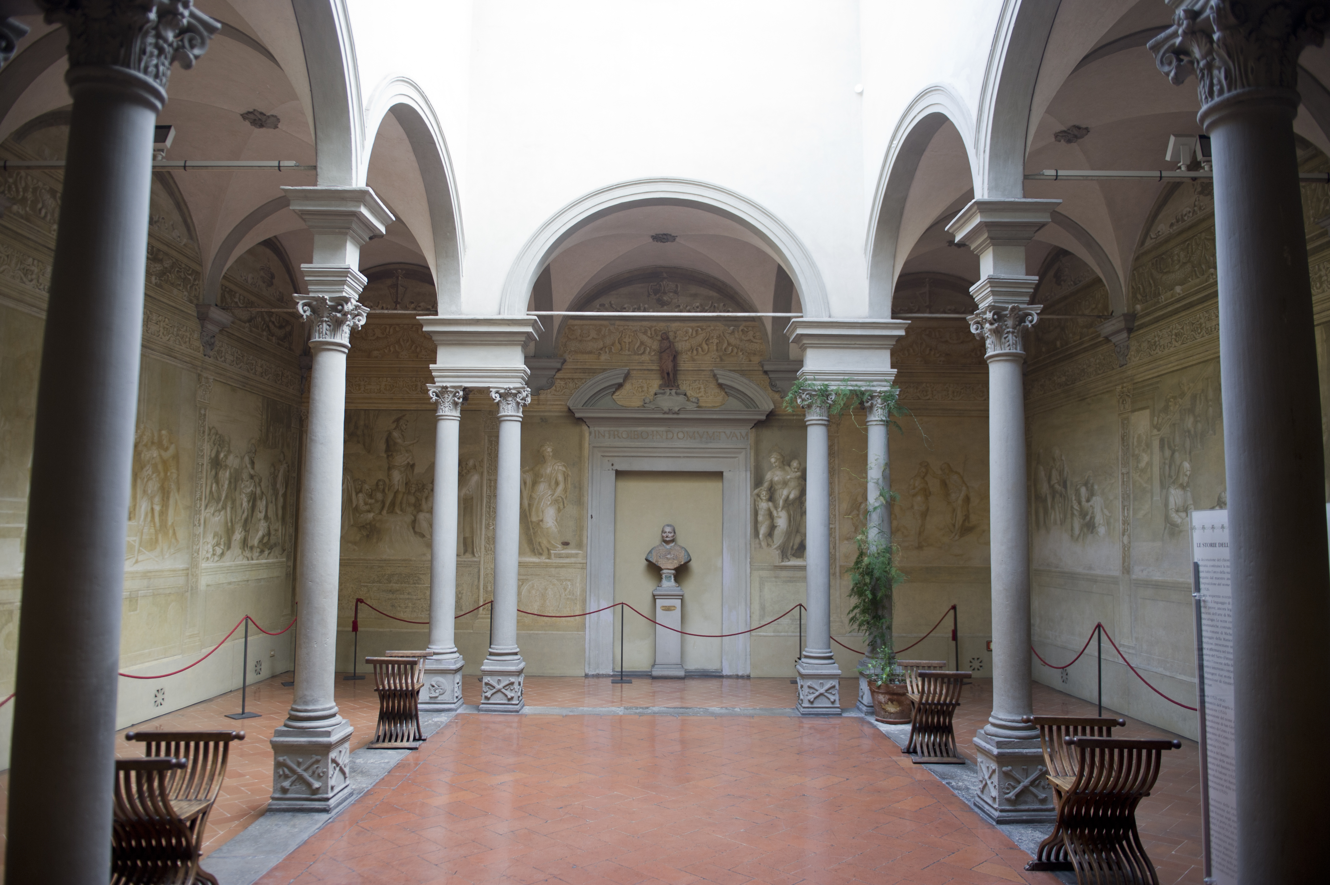 Overall view from entrance